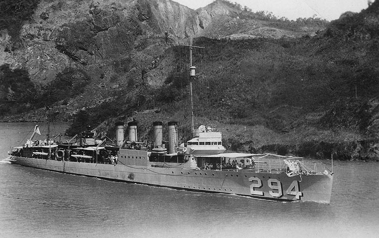 The U.S. Navy destroyer USS Charles Ausburn (DD-294) transiting the Panama Canal, circa 1922-1930.